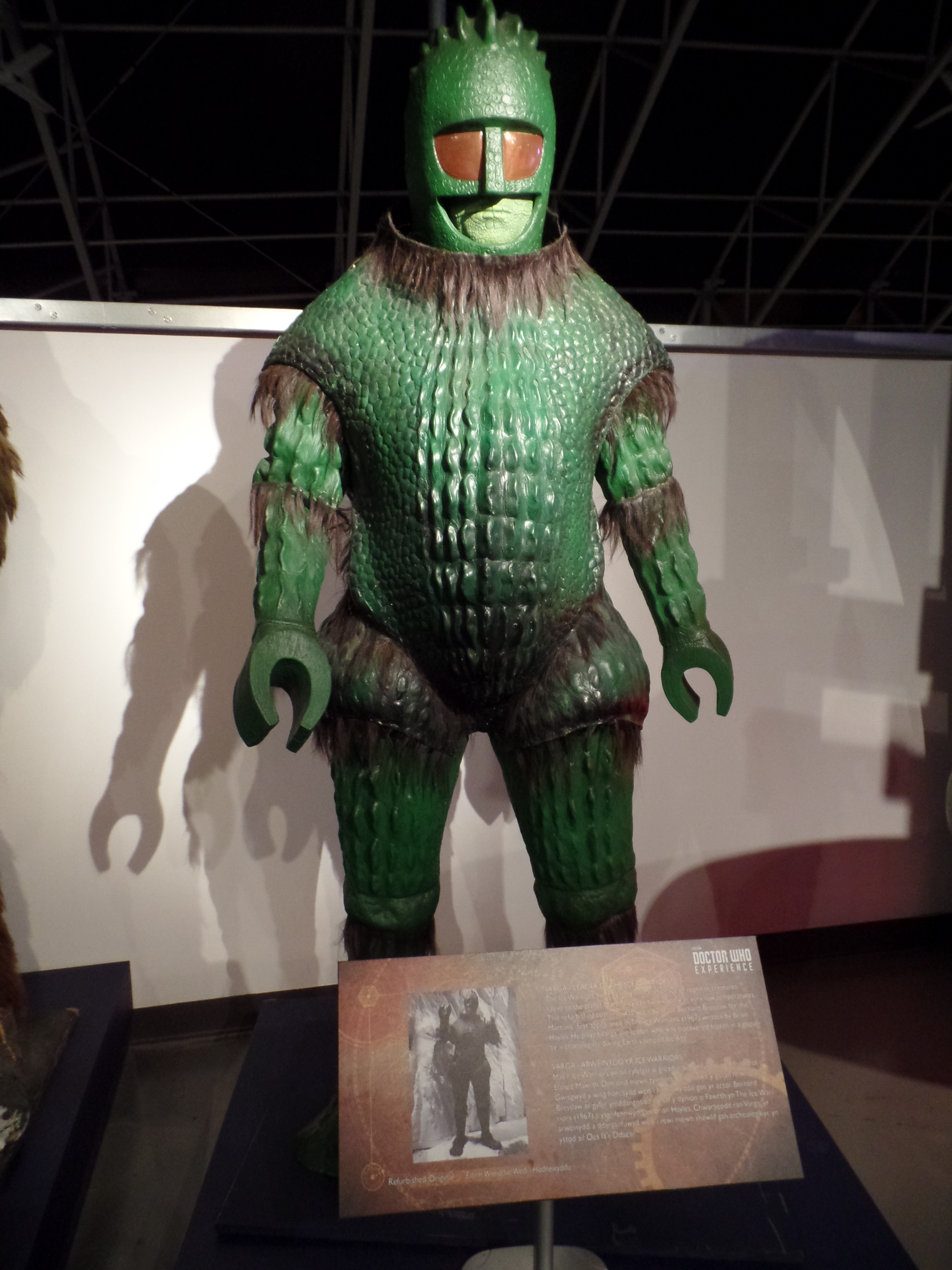 SAMSUNG CAMERA PICTURES Doctor Who Experience